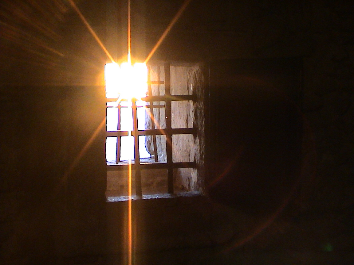 The prison cell of Cagliostro, fortress of La Rocca, in San Leo, Italy.